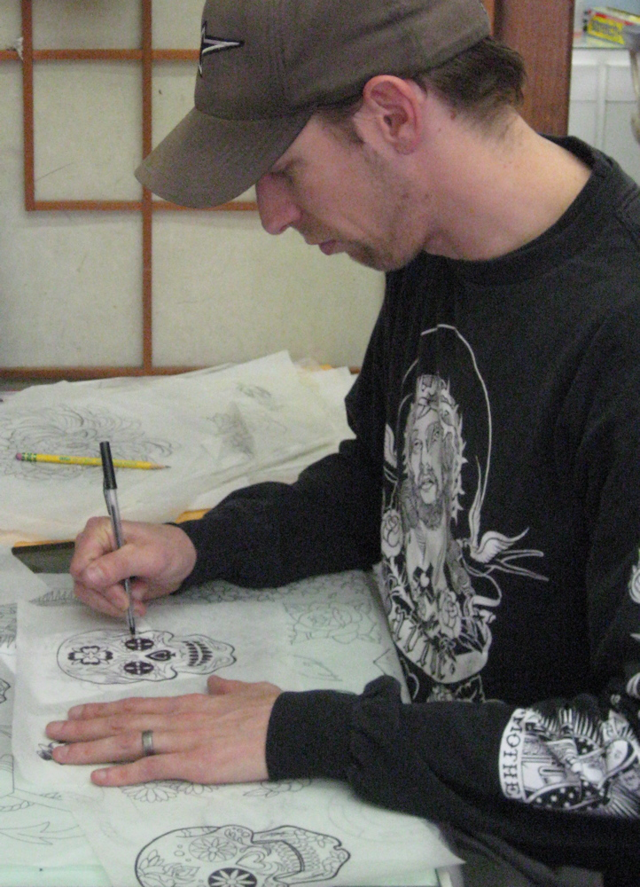 An image of Paul Timman working inside Sunset Strip Tattoo.